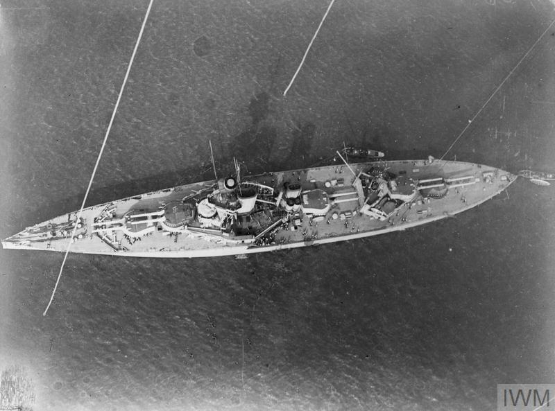 The battleship HMS Prince of Wales underway